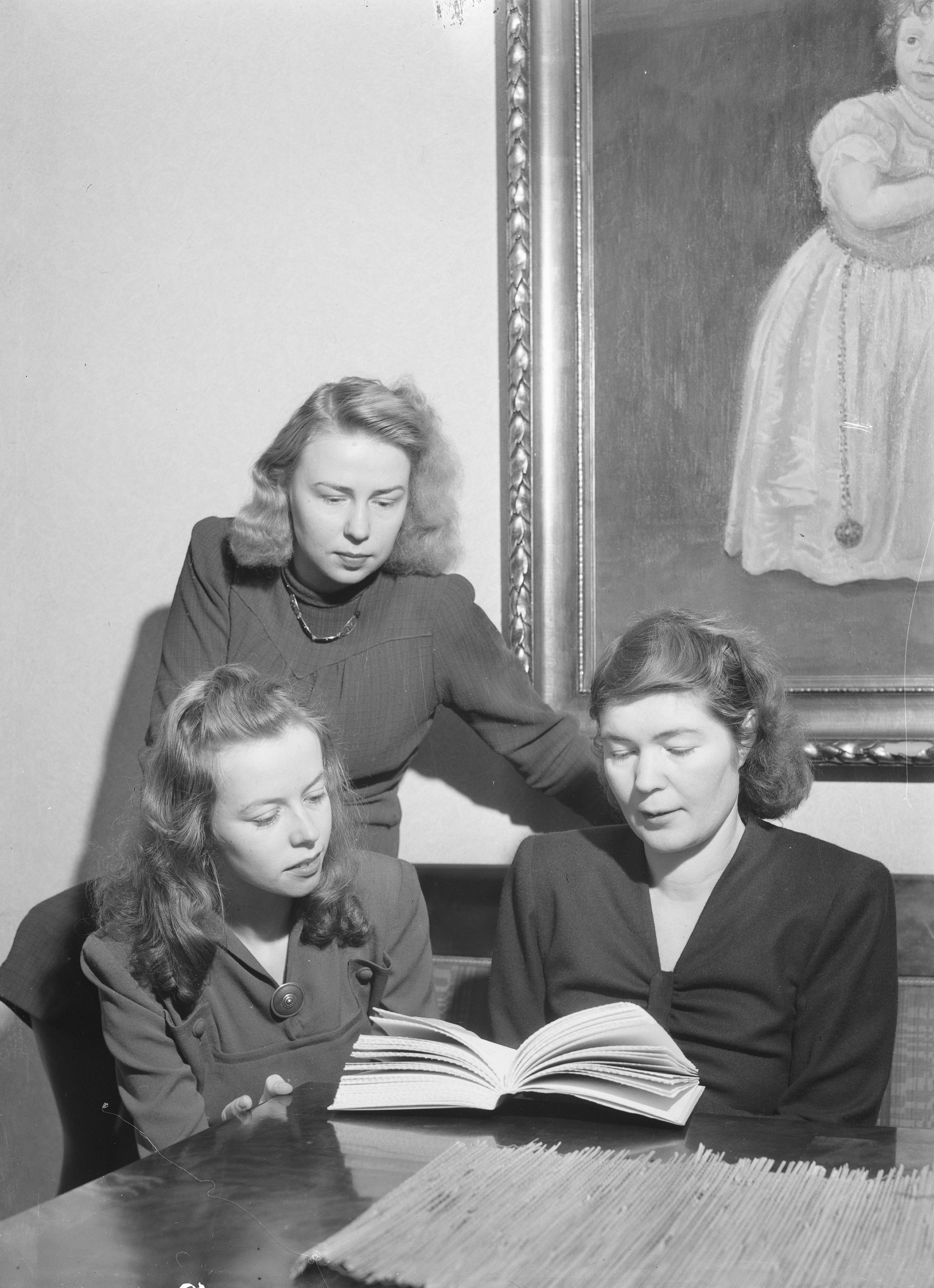 Photograph of the Finnish writers Aila Meriluoto (1924–2019), Anja Samooja (1919–1966) and Aale Tynni (1913–1997).